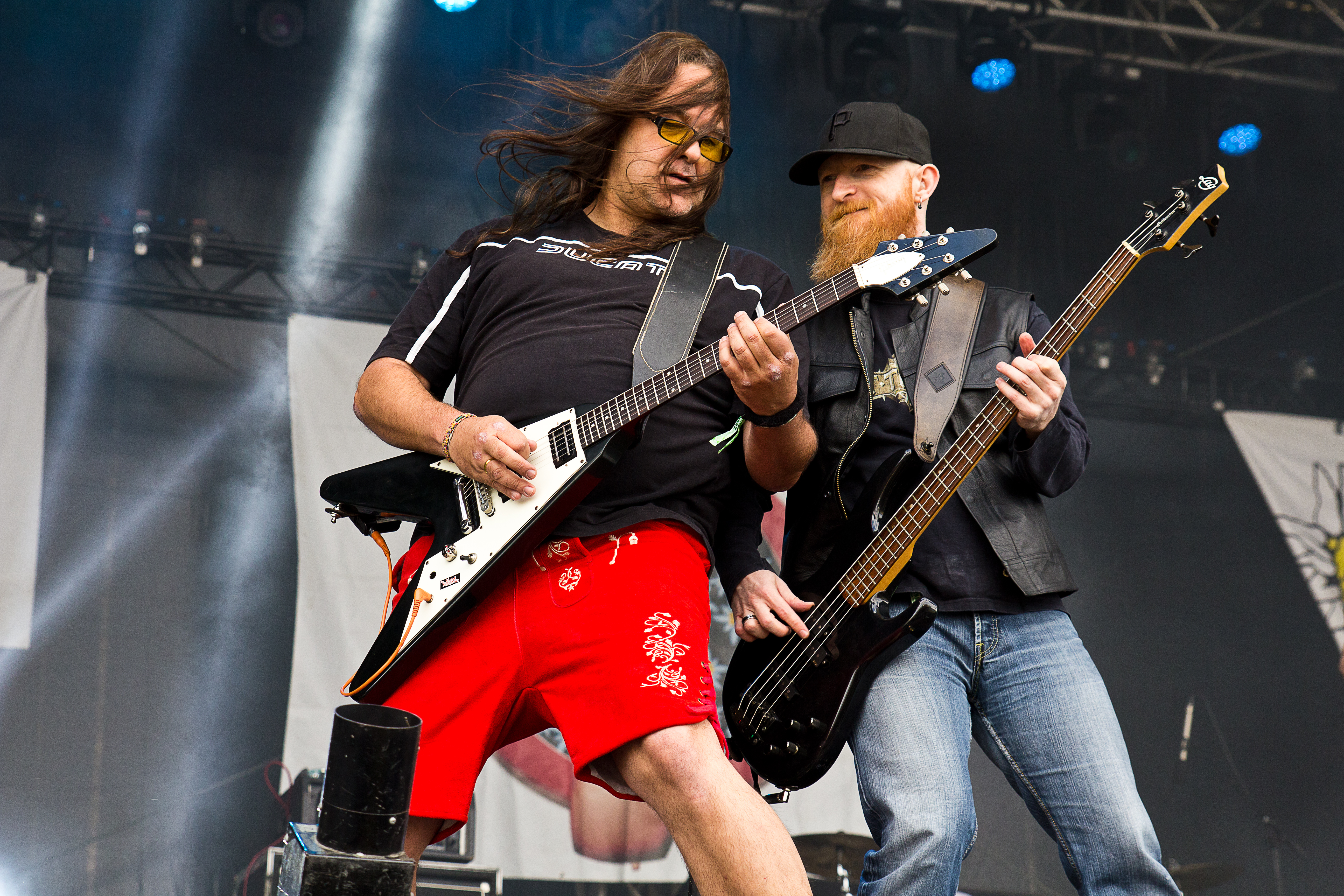 The German heavy metal band Volksmetal at the Rockharz Open Air 2015 in Ballenstedt/Germany.